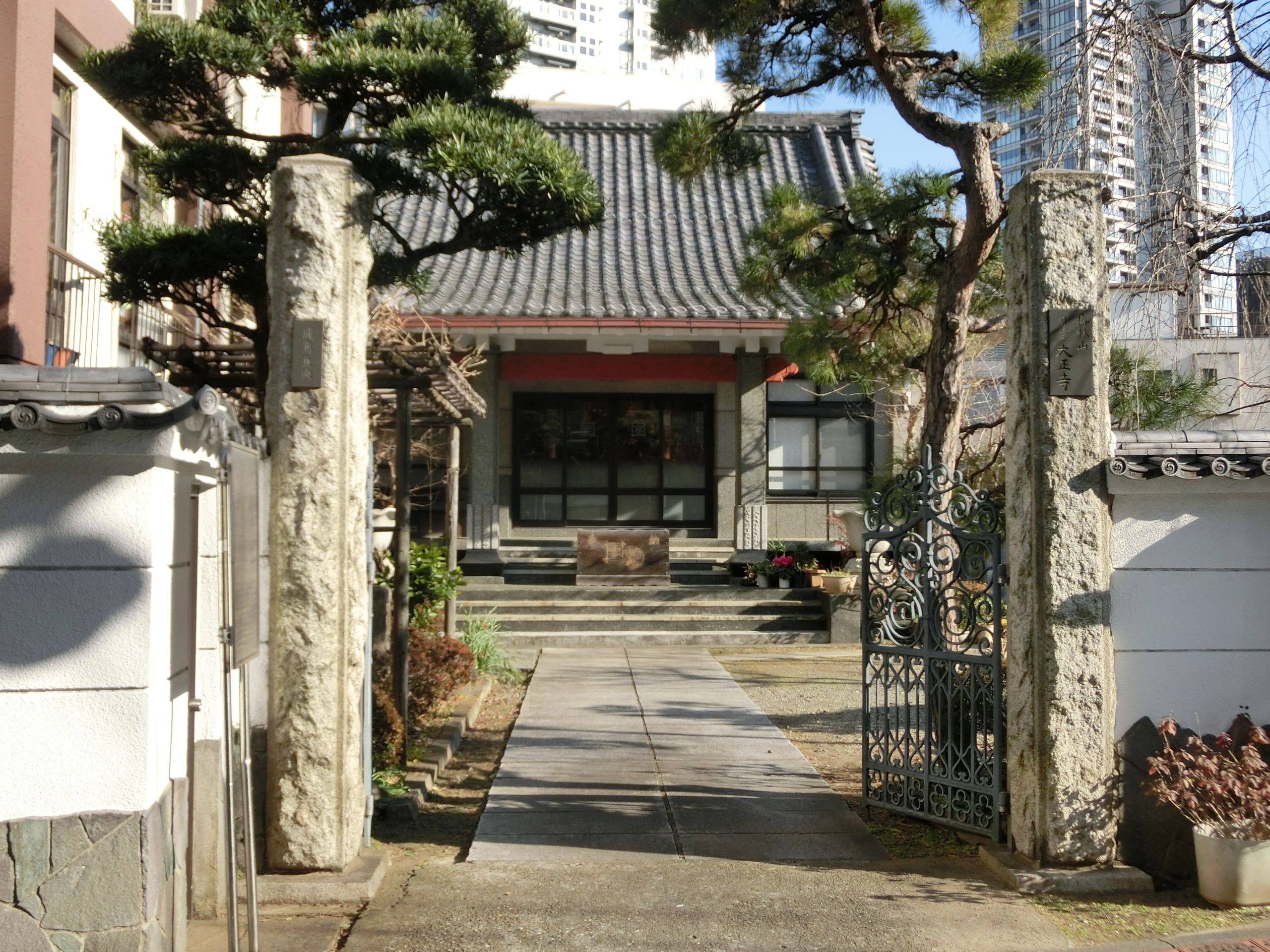 Taisho-ji (Taito)